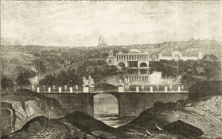 Сад Ф. Горохова в Томске 1840-е годы